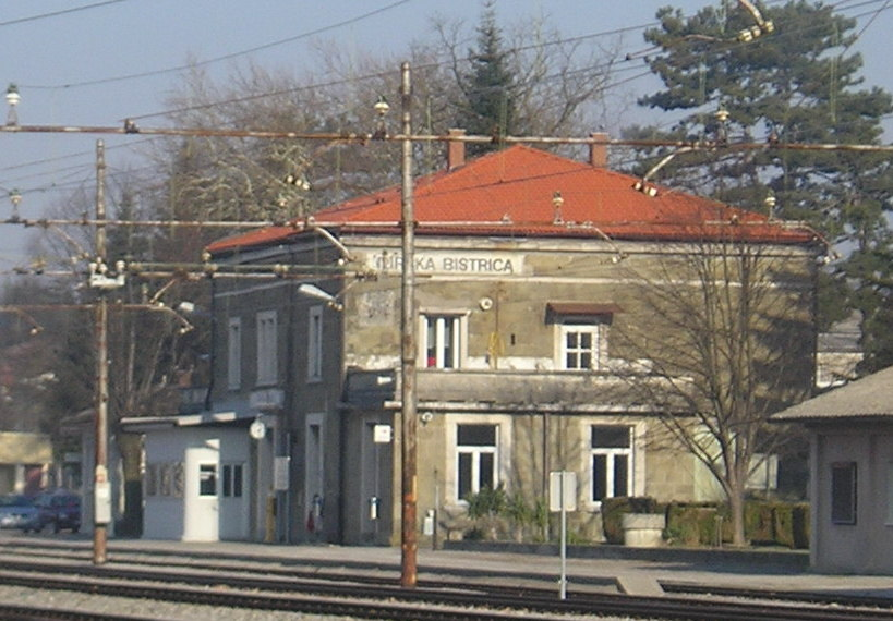 Train station in Ilirska Bistrica, Slovenia